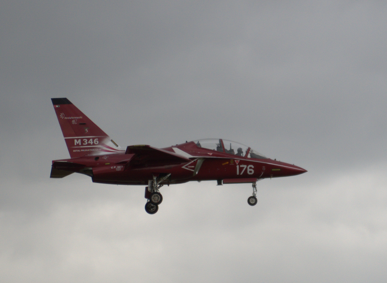 An M-346 Master lands at Le Bourget on Monday, June 21, 2011. It is the newest generation fighter trainer available in Europe.